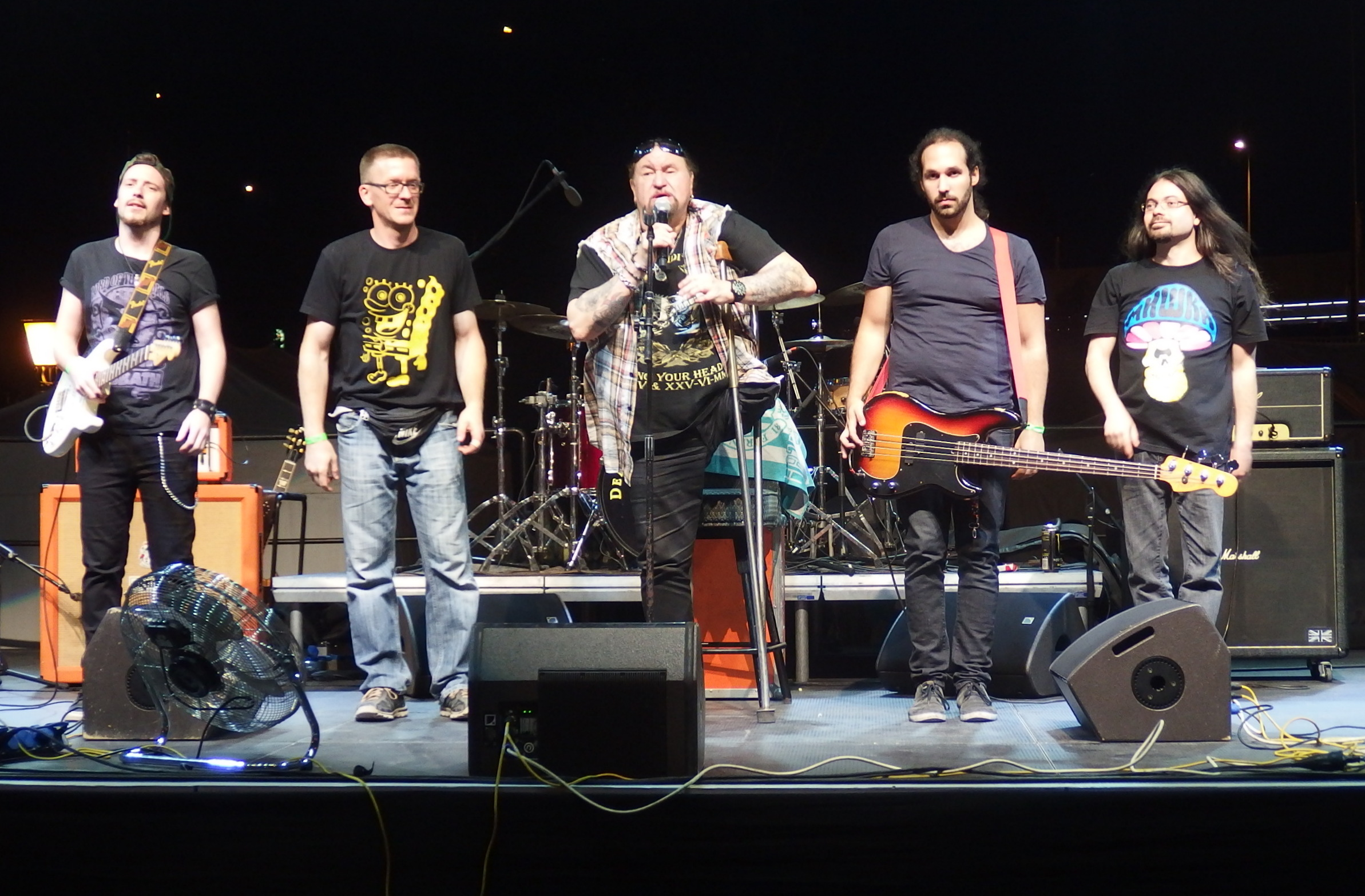 Deák Bill Blues Band, Hungarian blues-rock band